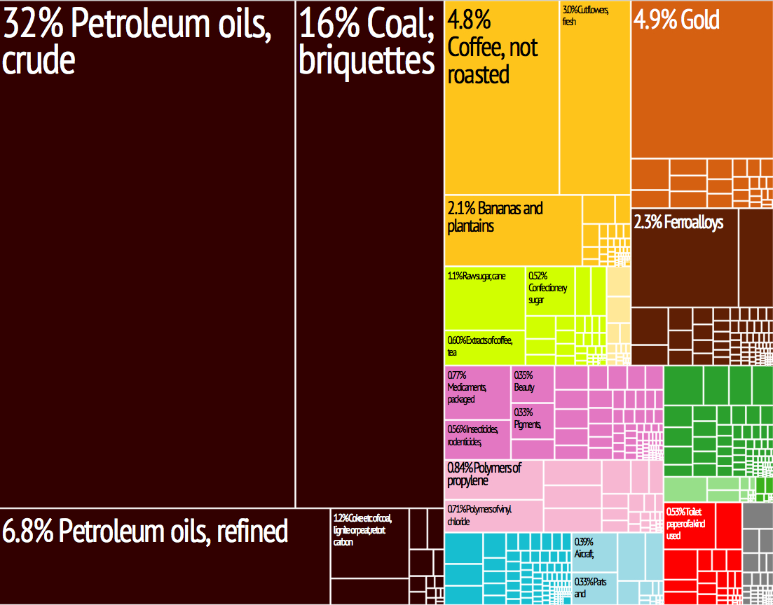 Colombia Export Treemap from MIT Harvard Economic Observatory